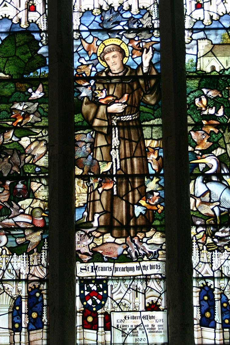 Stained glass window in St Mary's Church, Selborne, Hampshire, England. Memorial to the naturalist Gilbert White (1720–1793).